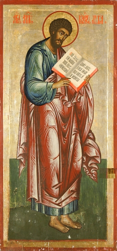 Luke the Evangelist, Russian icon from first quarter of 18th cen.